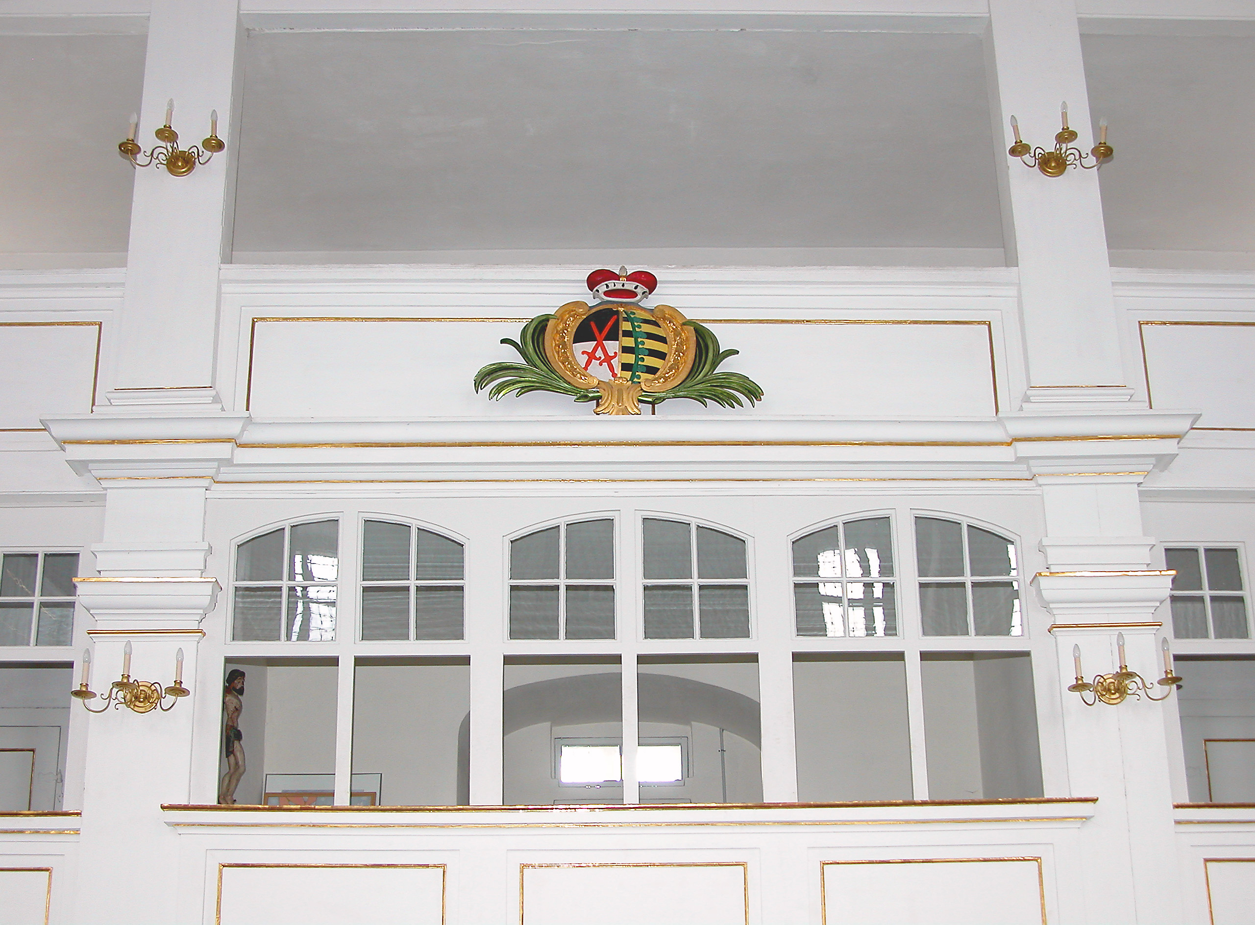 01.04.2001 01847 Lohmen, Dorfstraße (GMP: 50.989566,13.995545): Kirche, Barockbau von 1786-1789 von J. D. Kayser. Patronatsloge mit Kursächsischem Wappen. [DSCN8809.TIF]20060305140DR.JPG(c)Blobelt